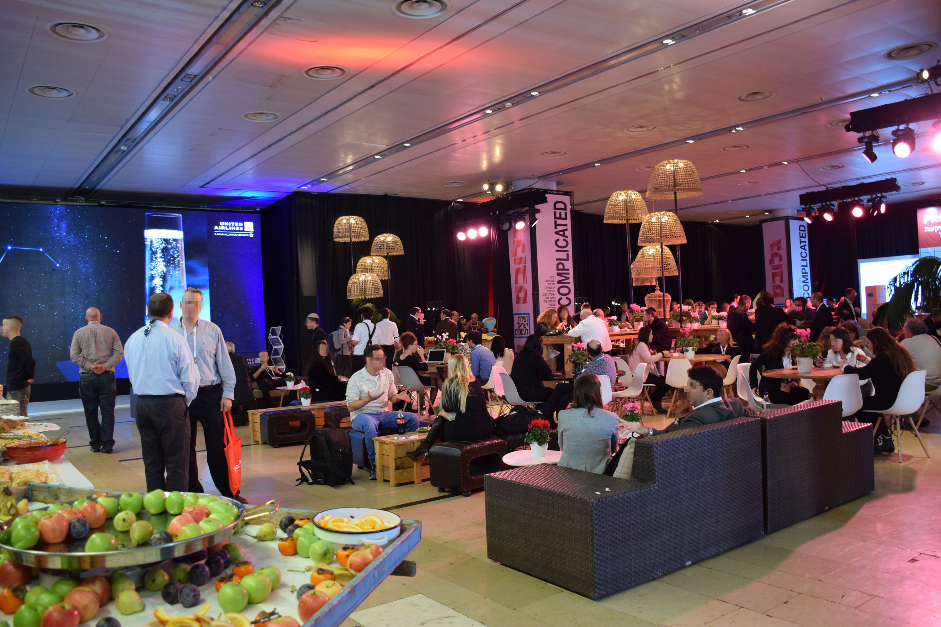 Globes Israel business conference 2018 at International Convention Center Binyenei HaUma